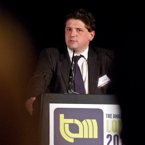 David Allen Green (aka Jack of Kent) speaks at TAM London 2010